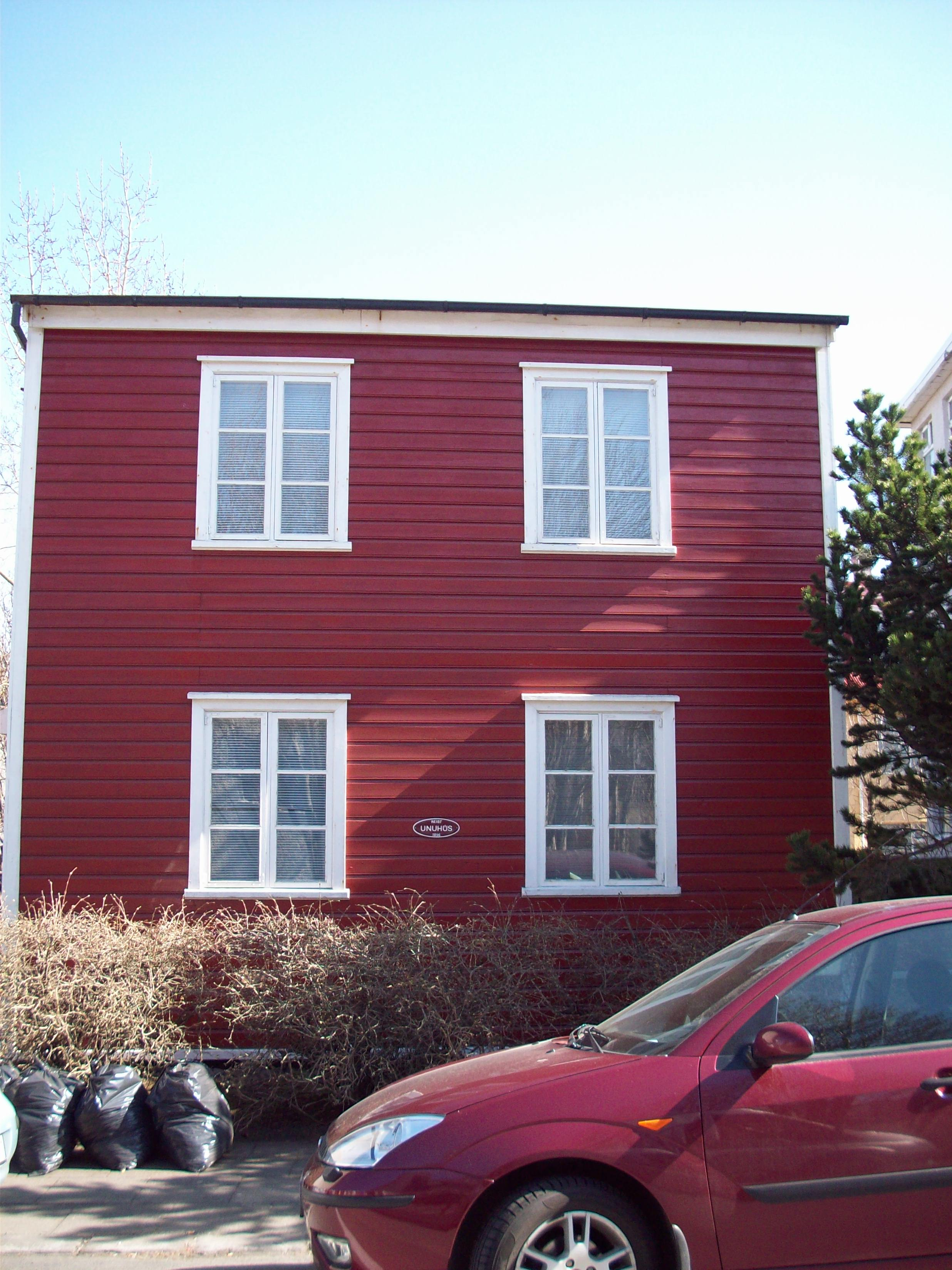 Unuhús